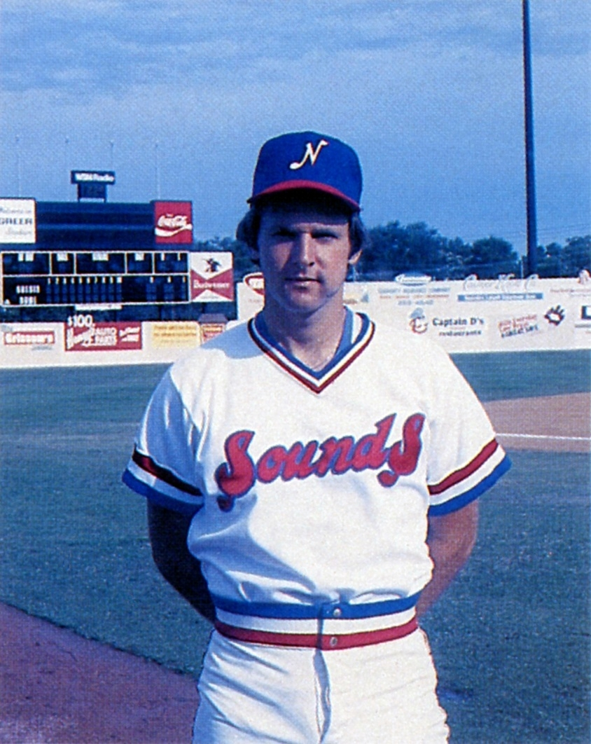 Pitcher Bob Sykes of the 1982 Nashville Sounds Minor League Baseball team of the Southern League